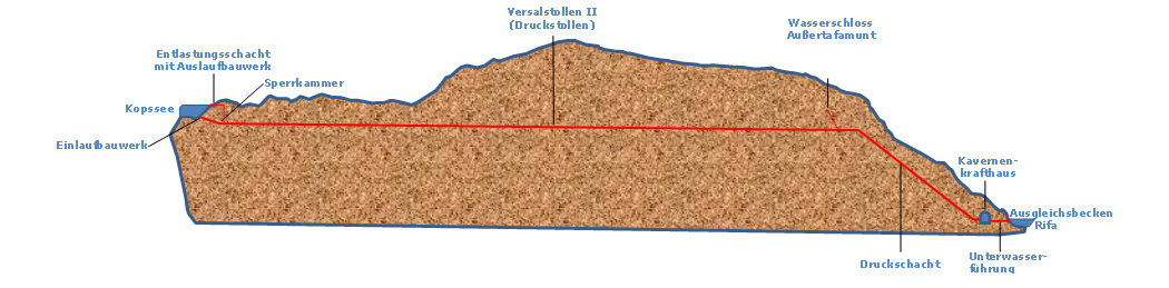 Water-management Kopswerk II, Gaschurn, Vorarlberg, Austria.